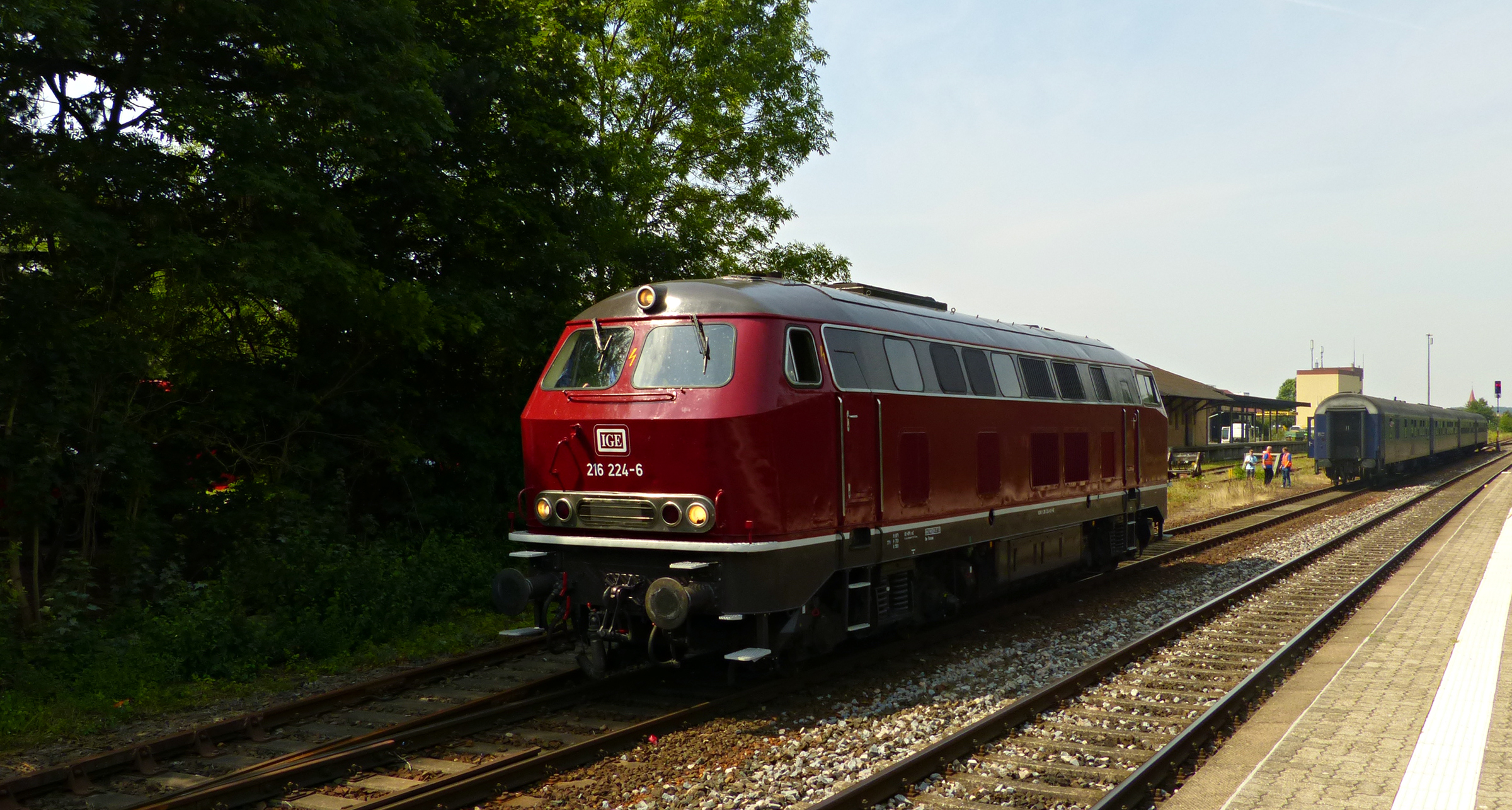 German Diesellocomotive 216 224 at the trainstation Hersbruck (rechts Pegnitz), Germany